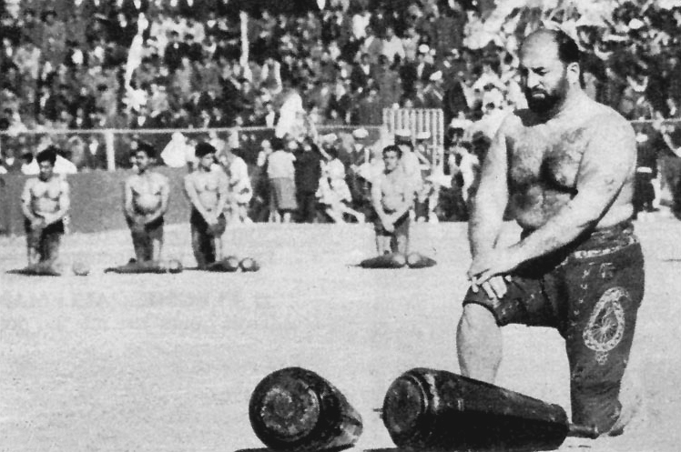 Shaban Jafari, a.k.a. Shaban Beemokh ("Shaban the Brainless"), was an important figure in Iranian contemporary history. For more than half a century he has been commonly known as a thug who led his men against opponents of Mohammad Reza Pahlavi, notably during the 1953 coup.